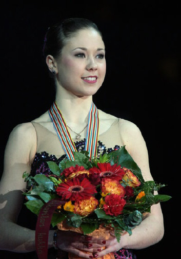 Laura Lepistö at the 2009 European Championships.